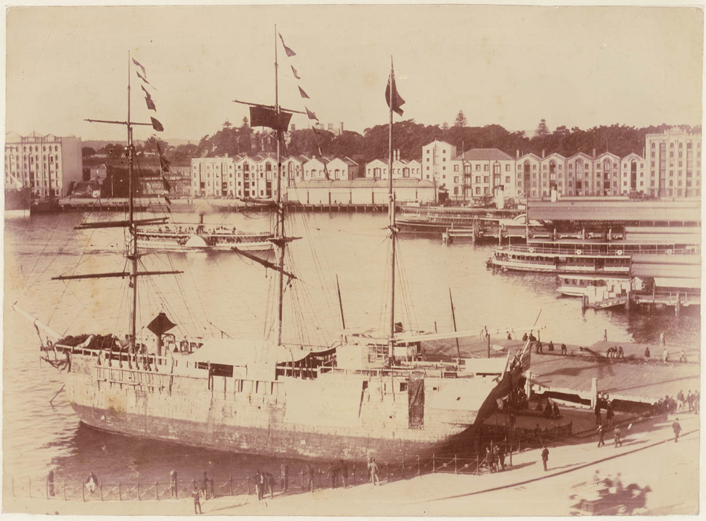 Format: Albumen photoprint Find more detailed information about this photograph: .au/item/itemDetailPaged.aspx?itemID=414395 Format: Photograph Search for more great images in the State Library's collections: .au/search/SimpleSearch.aspx From the collection of the State Library of New South Wales